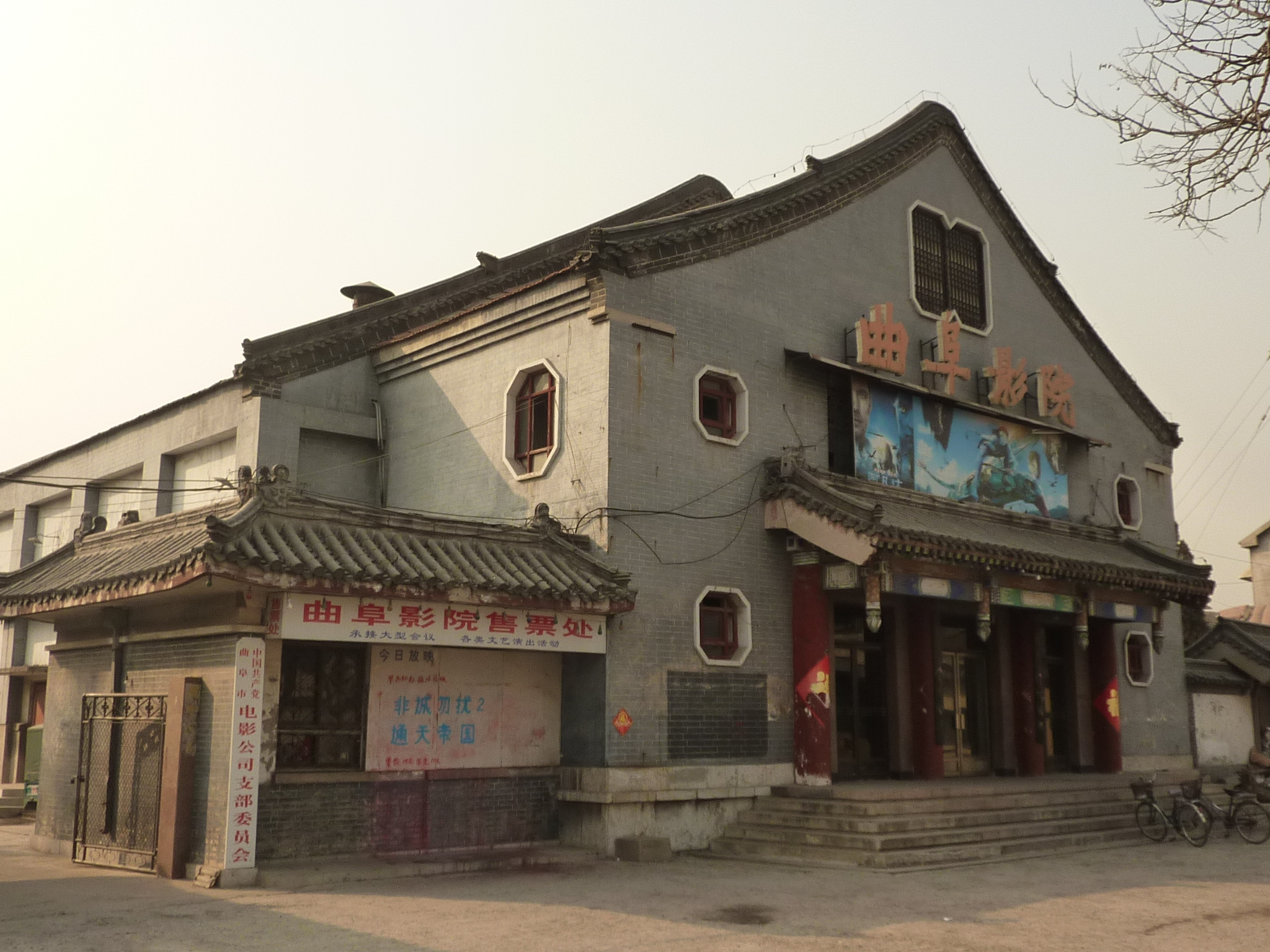 The Qufu Cinema, located within the western part of the walled city